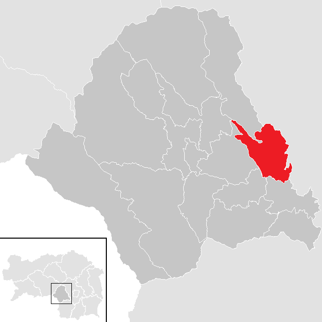 district Voitsberg